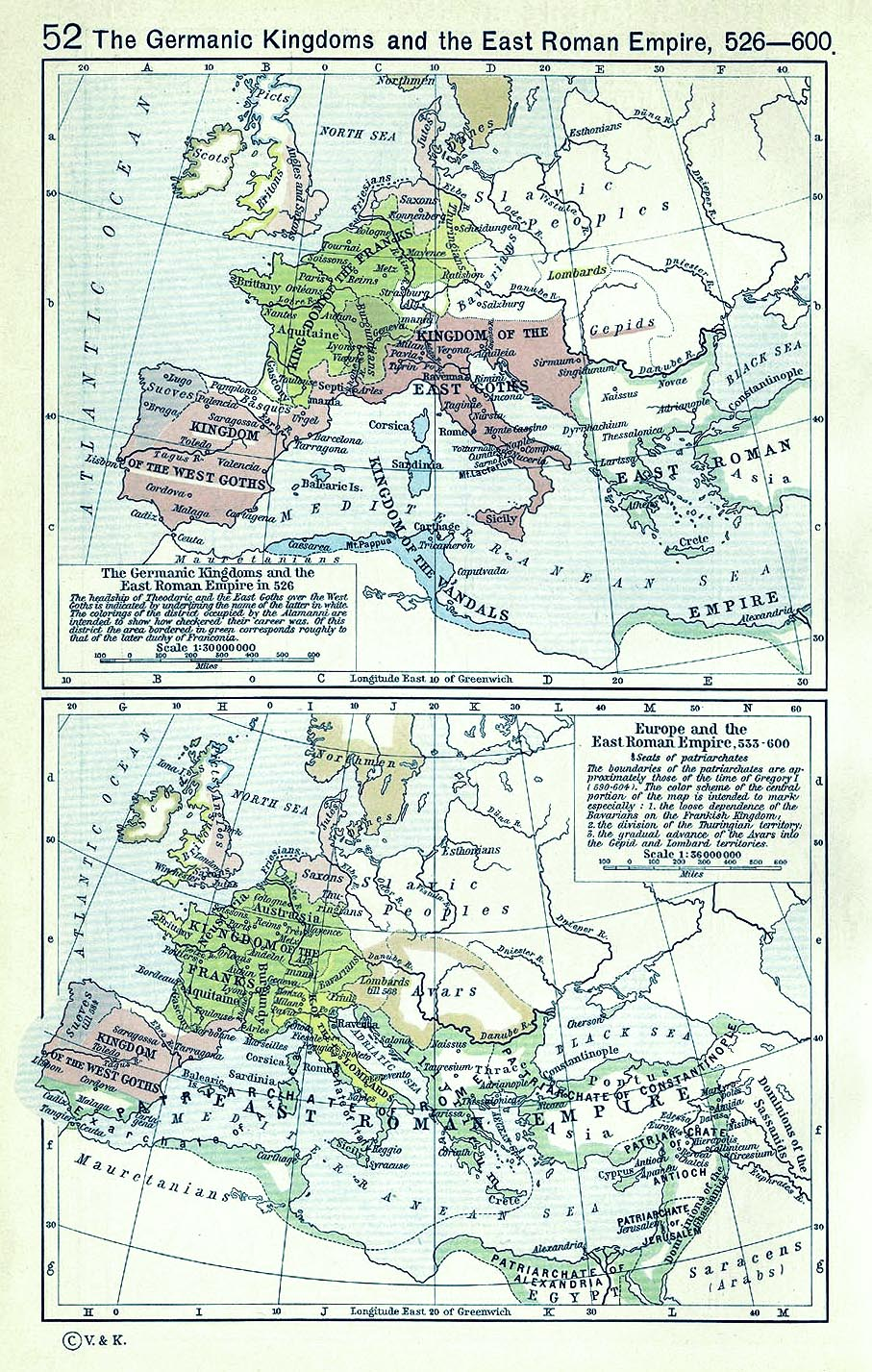 A map political map of Europe, situation as of c. 526-600